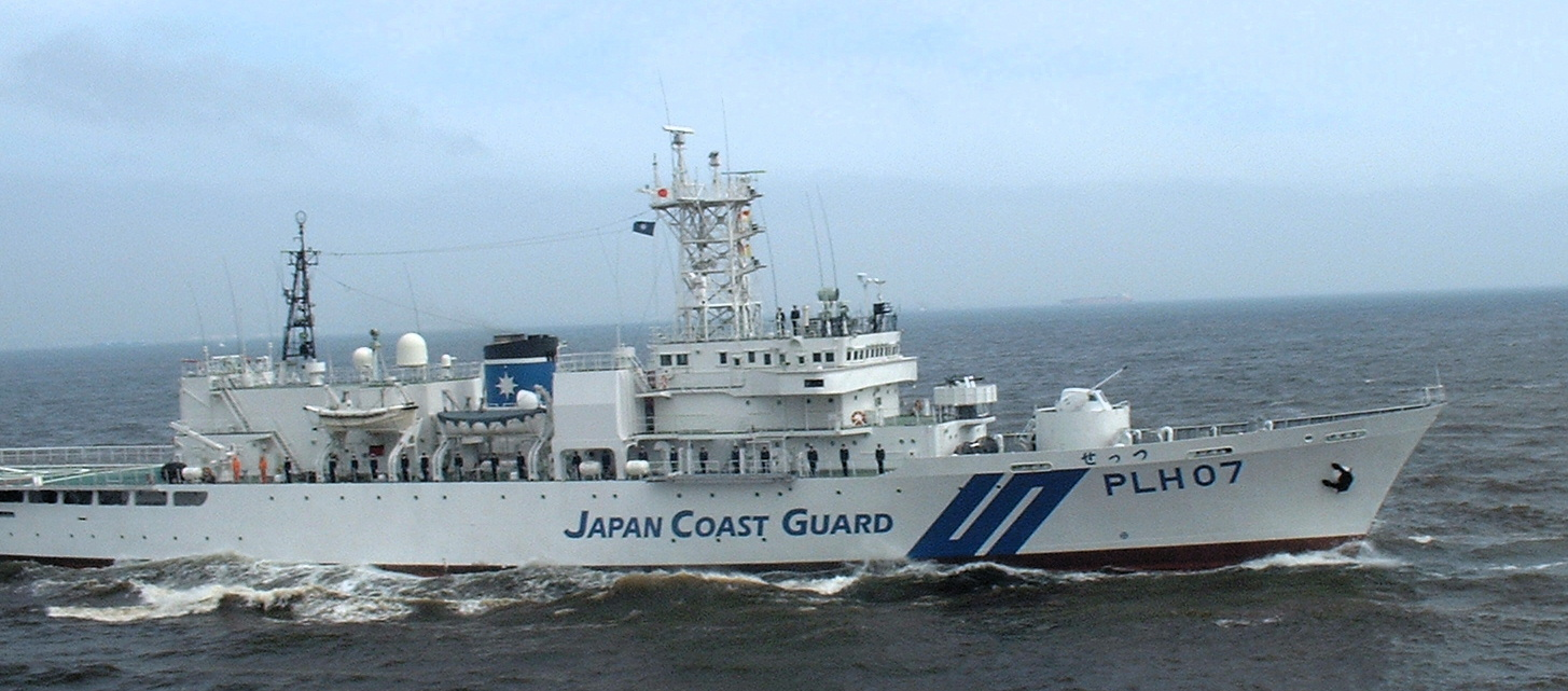 Japan Coast Guard (JCG) PLH 07